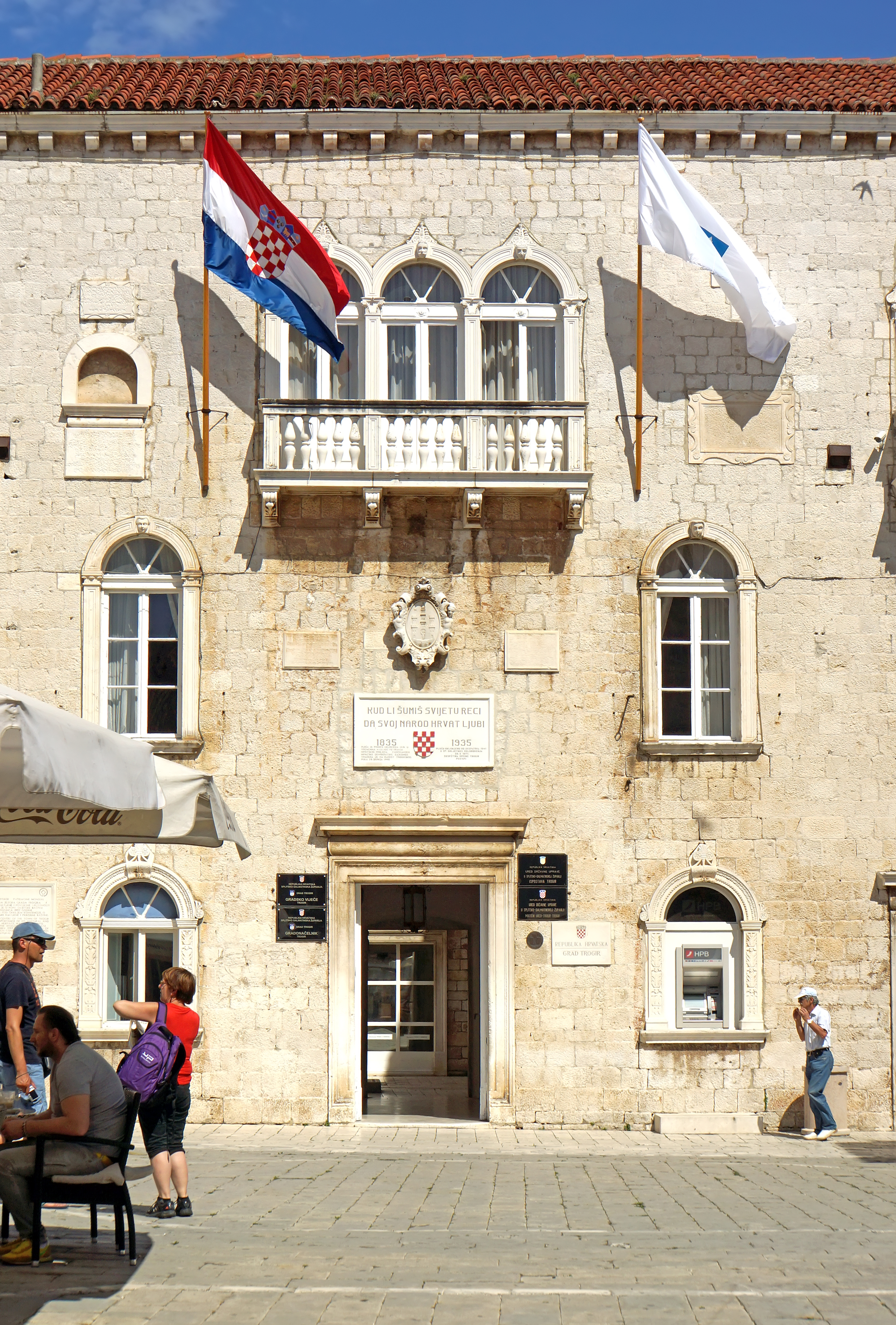 City Council Building